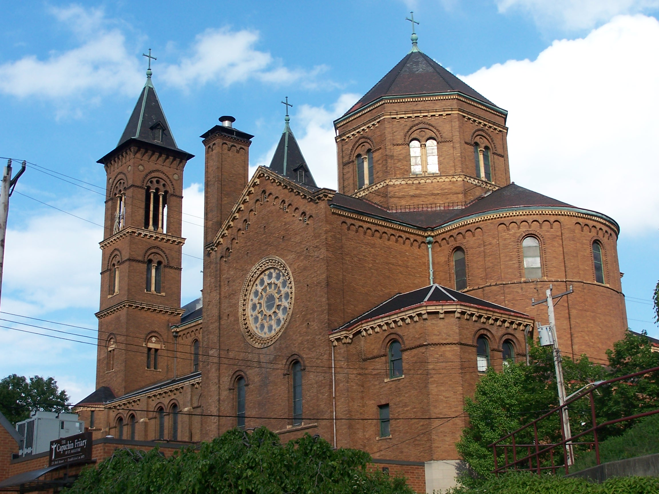 St Augustine Roman Catholic Church, Lawrenceville section of PIttsburgh. The hills of the region present many architectural challenges - and some picturesque solutions. Example of late Romanesque Revival (actually pre- and post-Richardsonian).